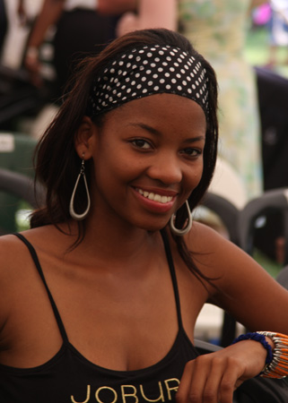 Miss Botswana 2008 Itseng Kgomotso during Miss World 08